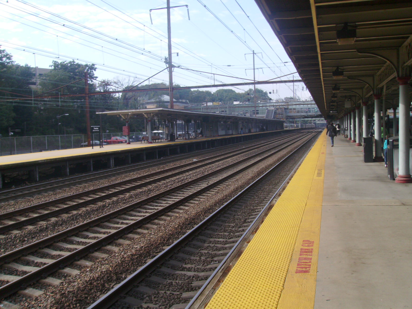 Looking towards the south along Track 4 at the Trenton Transit Center in Trenton, where the Northeast Corridor ends for New Jersey Transit.